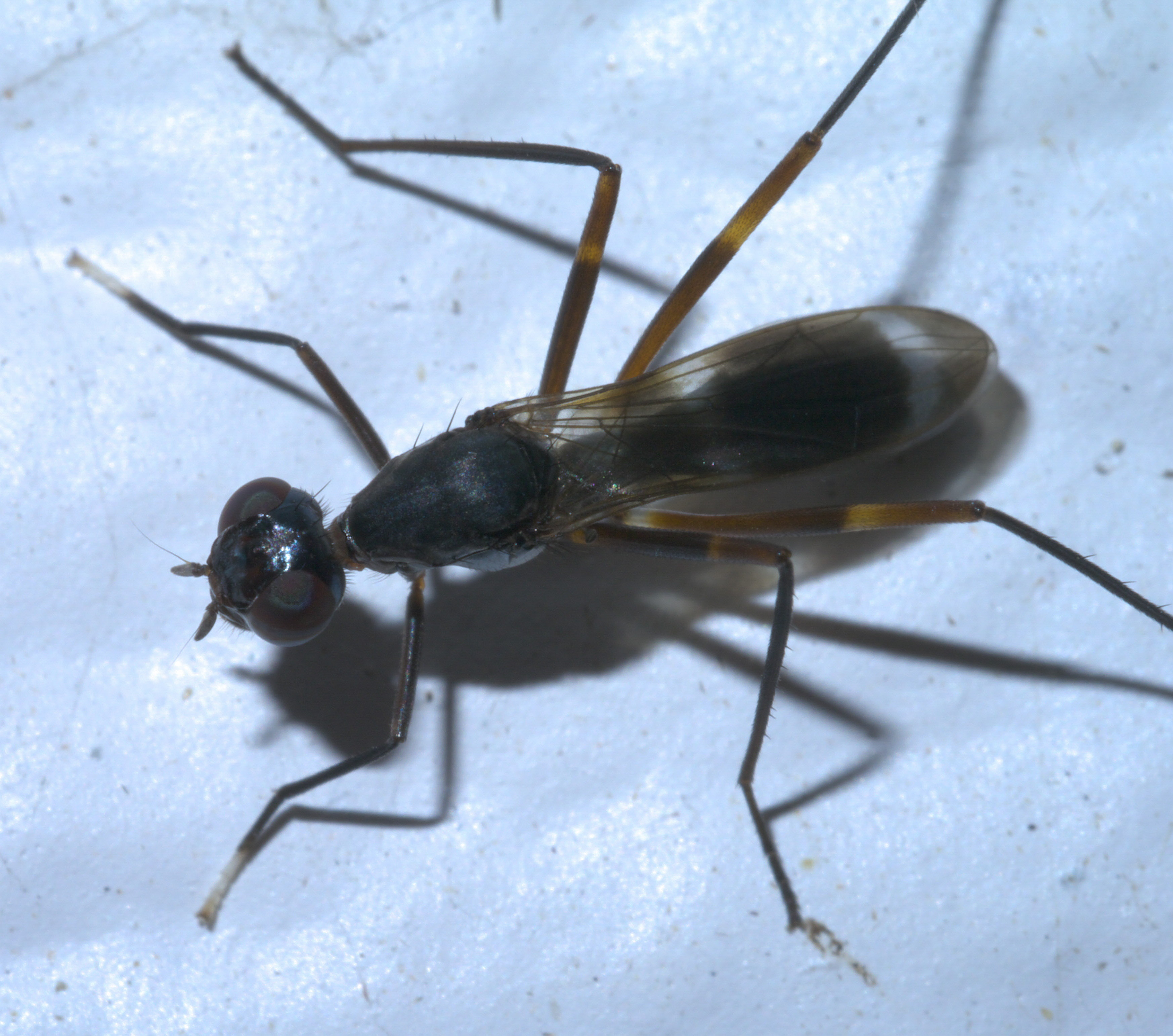 Taeniaptera trivittata, Family: Stilt-legged Flies, ID Confidence: 87